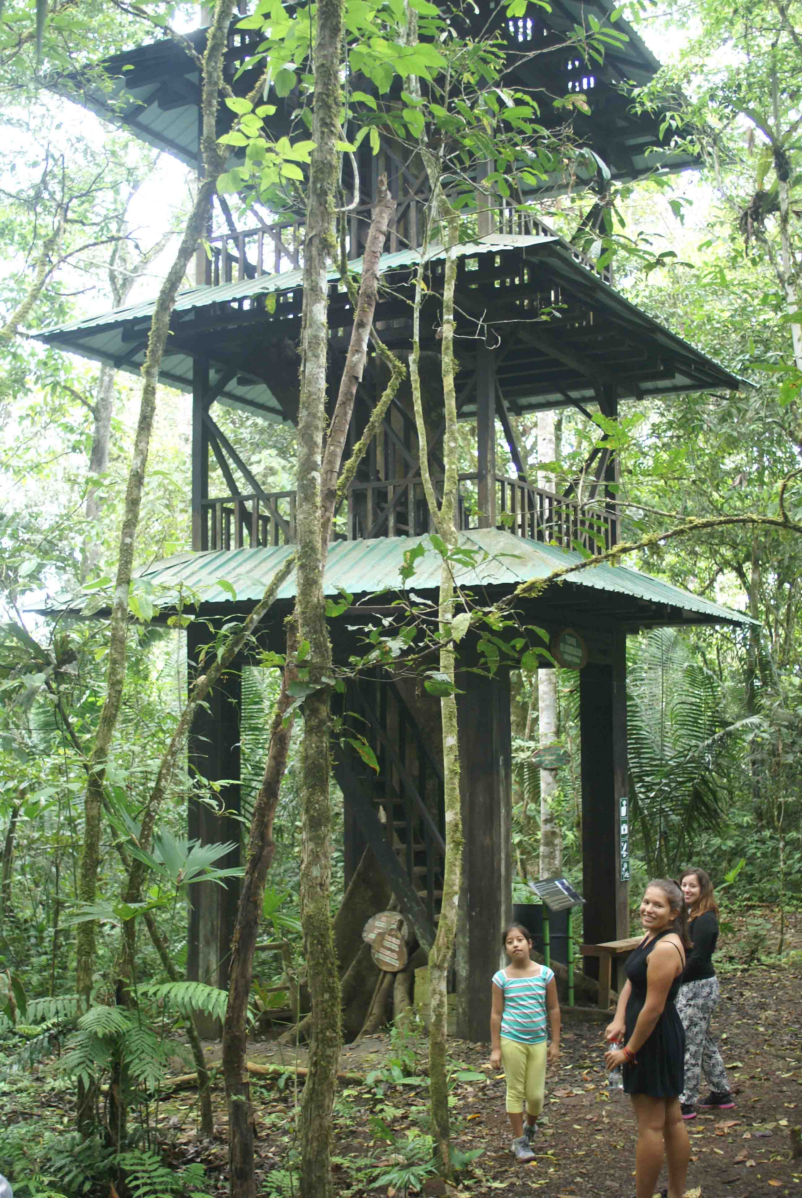 The Parque Bótanico del Cantón Sucúa is a regional park in Ecuador. It has an area of 27.82 hectares of primary forest and forest in recovery, named after Tindiuky Neida in honor of the plant most representative of the place commonly known as fiber. It has a path of 1200 m that allows to travel all the important points of the park. The area where the park is located belongs to the tropical humid forest area.